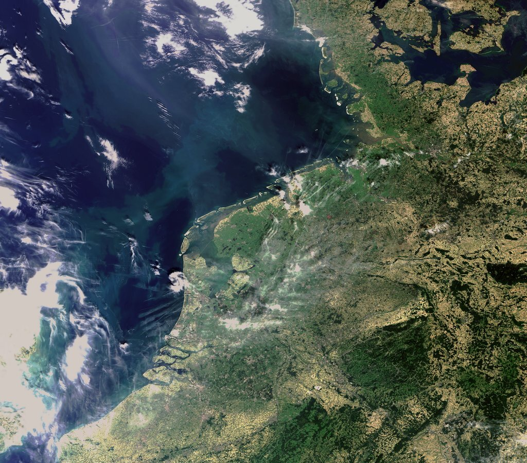 This Envisat image captures the dynamic landscape of the Wadden Sea, a tidal wetlands area in the southeastern part of the North Sea that extends some 450 km along the coasts of the Netherlands, Germany and Denmark. The Medium Resolution Imaging Spectrometer (MERIS) instrument on Envisat acquired this image on 19 August 2009, working in Full Resolution mode to provide a spatial resolution of 300 m.